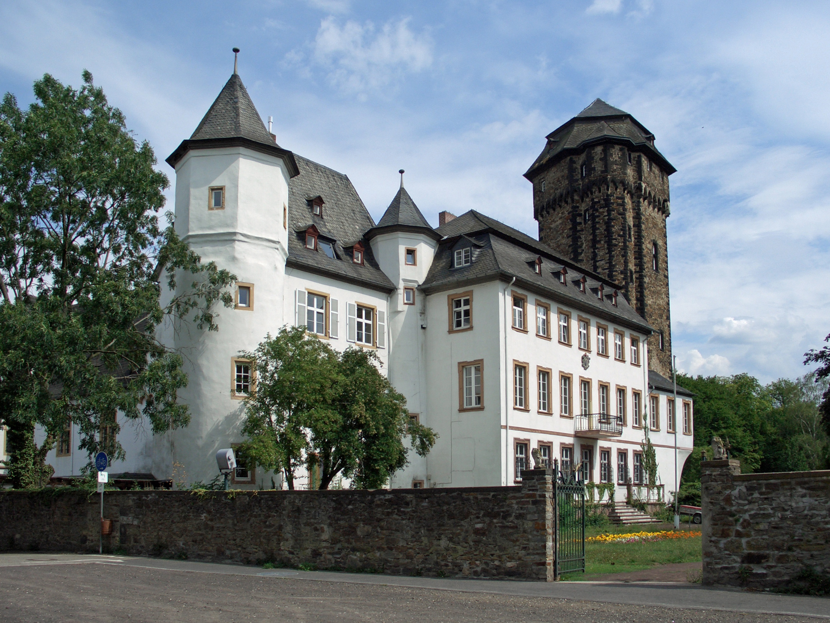 Schloss Martinsburg in Lahnstein